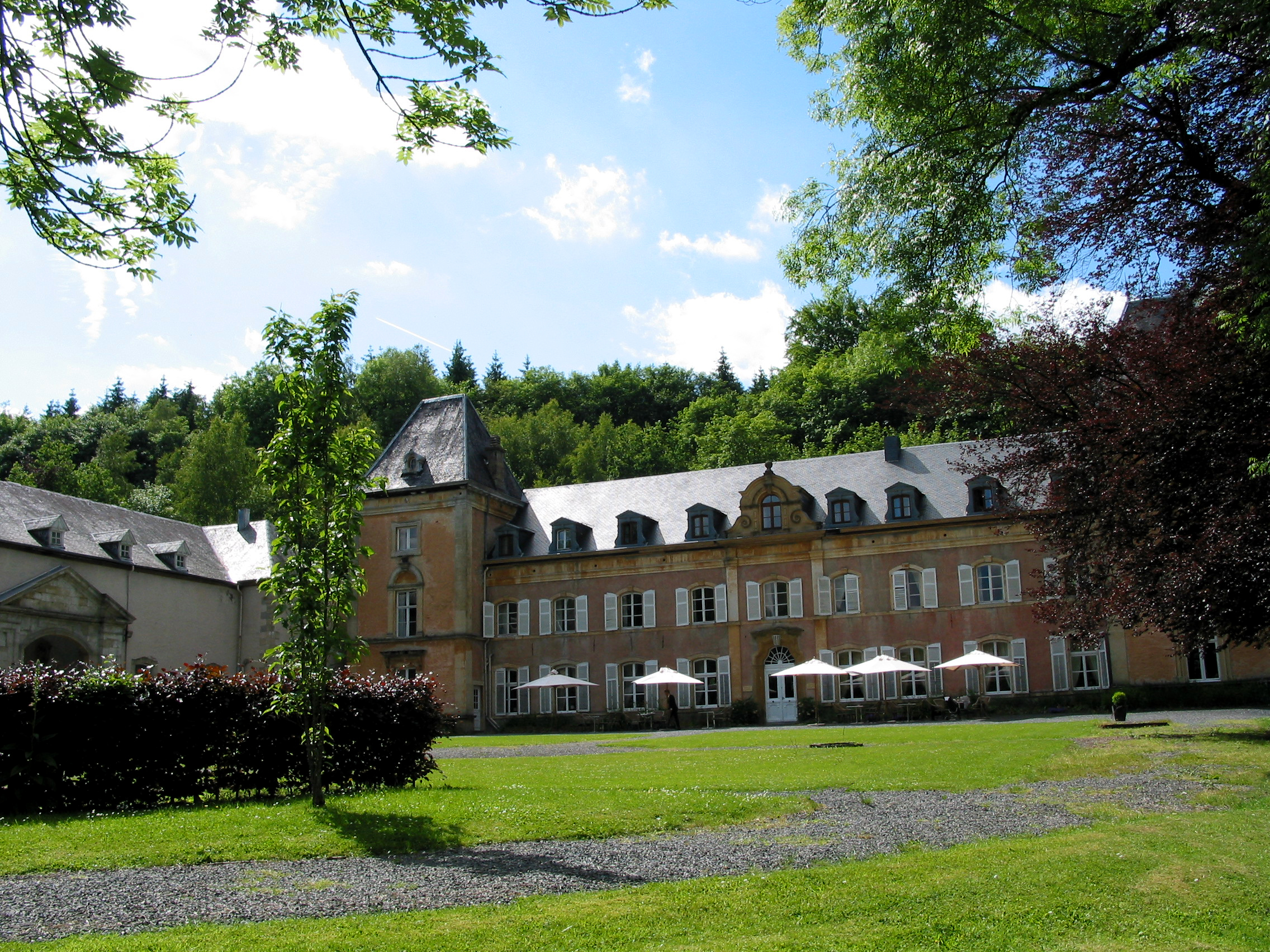 Habay-la-Neuve (Belgium), the « Pont d’Oye » castle.